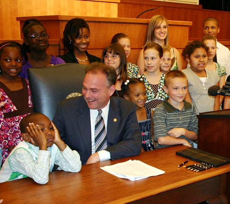 Virginia Gov. Tim Kaine shares a laugh with Army children at the ceremonial signing of the Interstate Compact on Educational Opportunities for Military Children at the Virginia State Capitol building, June 16. According to Gov. Kaine's office, Virginia is home to 76,352 school-aged children of active-duty military, more than any other state in the nation. See more at Virginia Governor commits the Commonwealth to support Army children